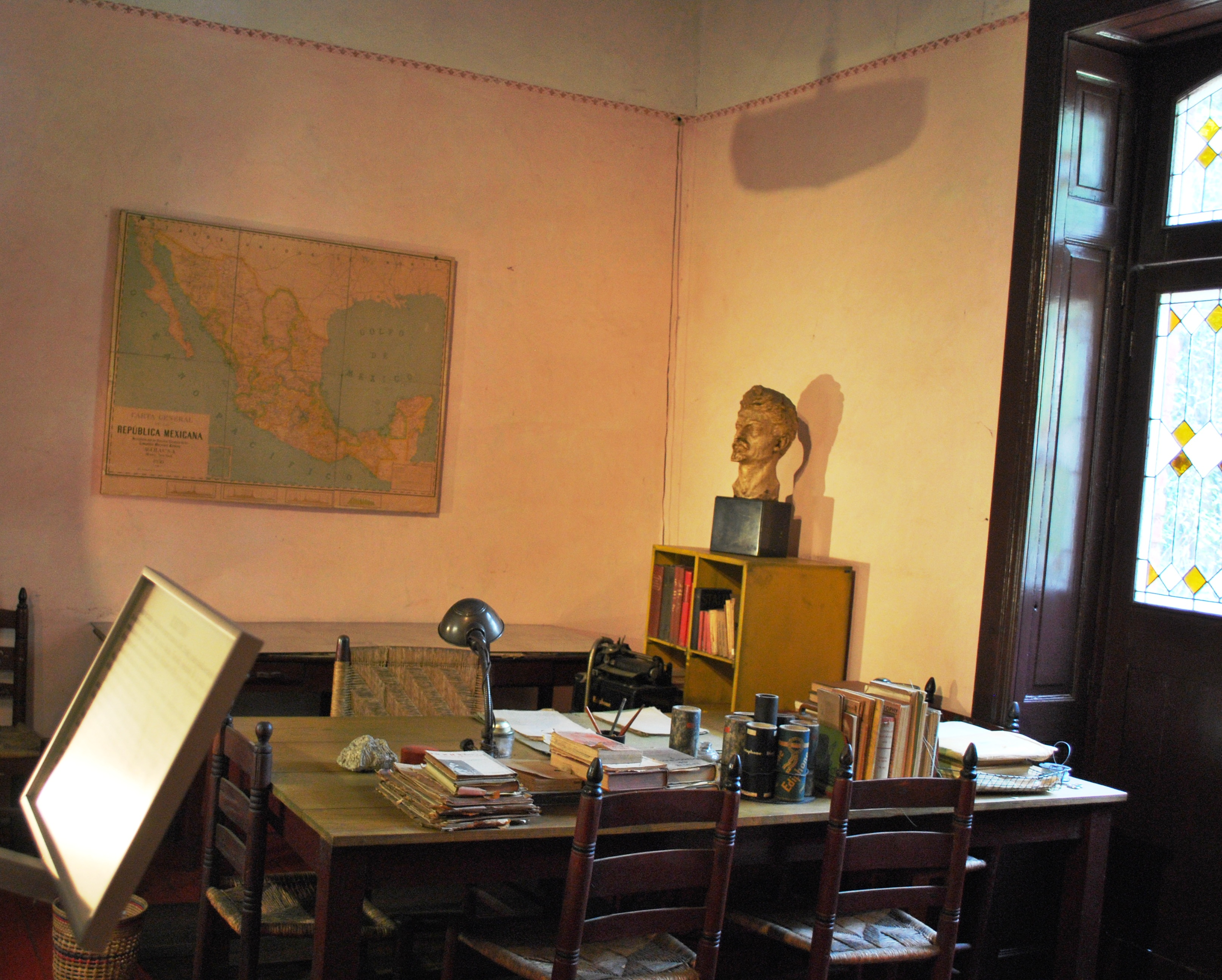 Study where Leon Trotsky was killed in the House of Leon Trotsky Museum in Coyoacan borough, Mexico City